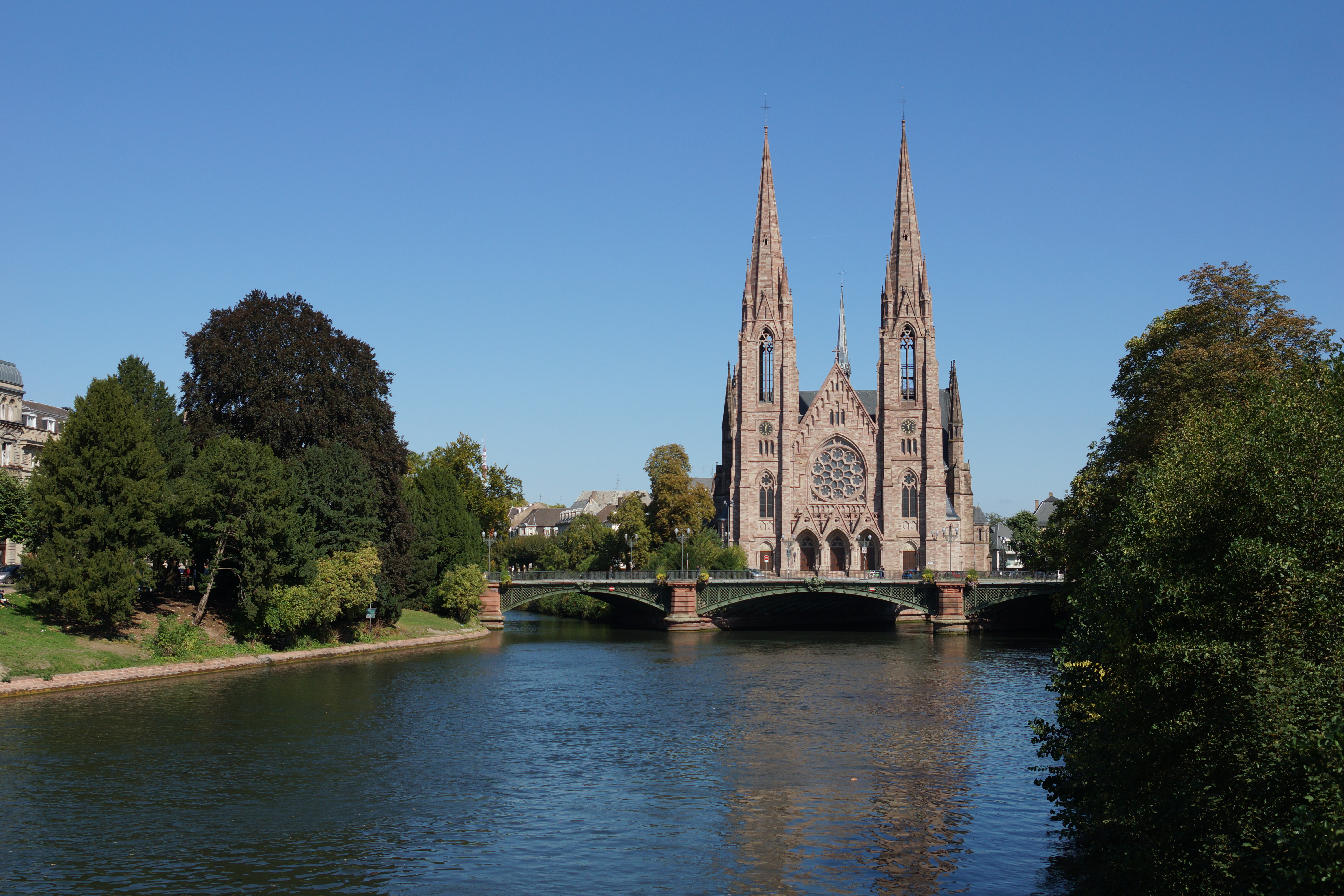 River Ill in Strasbourg with St Paul's church in the background